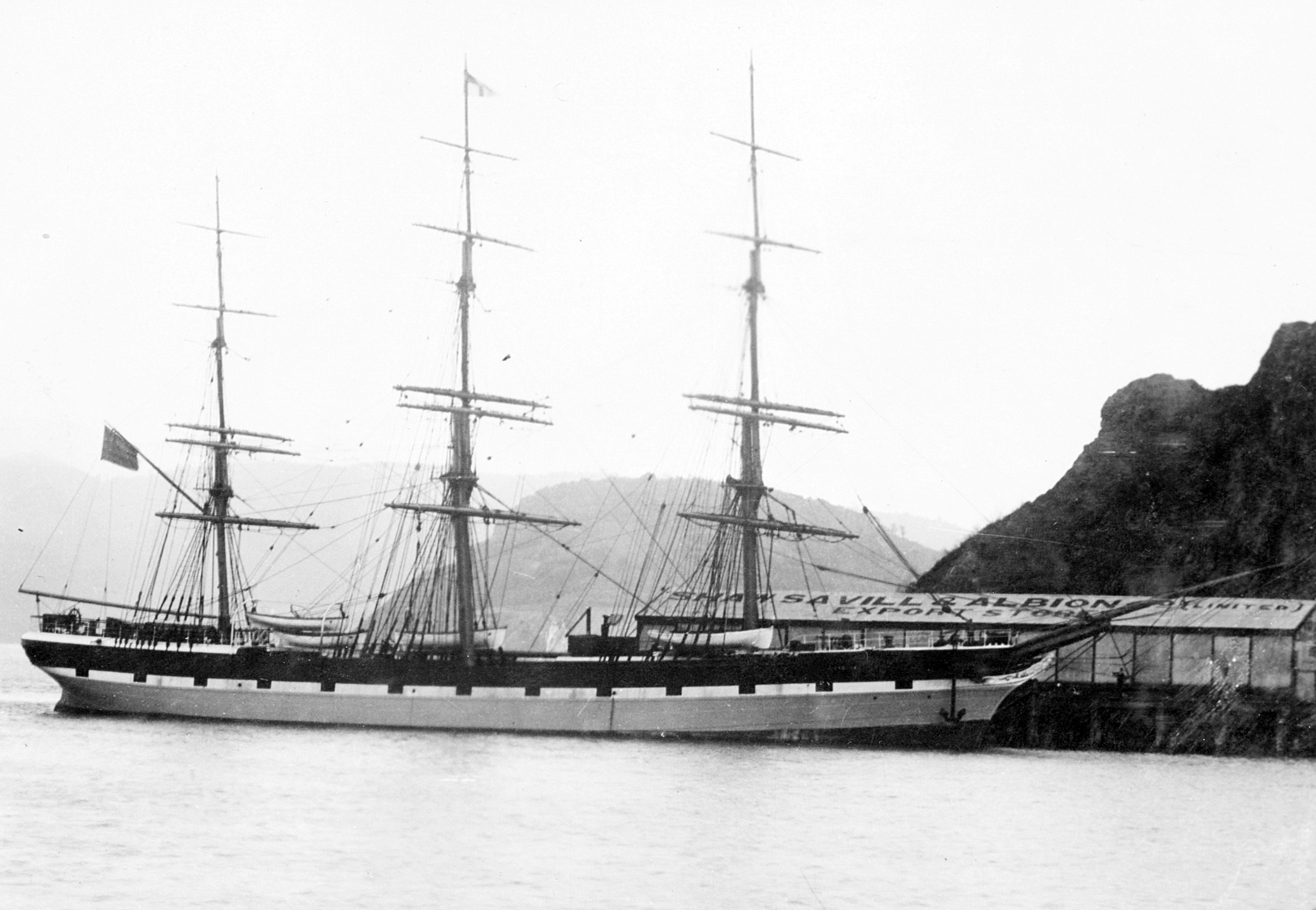 The windjammer Euterpe at Port Chalmers, Otago, New Zealand in 1883, later renamed the Star of India..